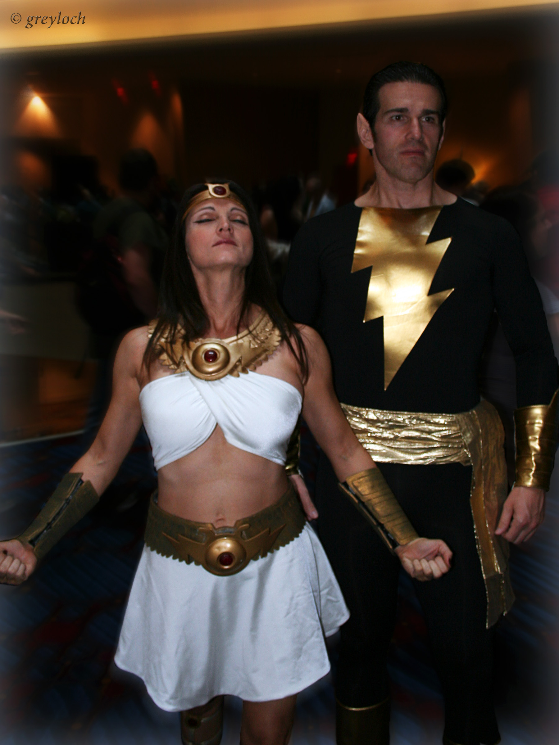 Cosplay of Isis and Black Adam.